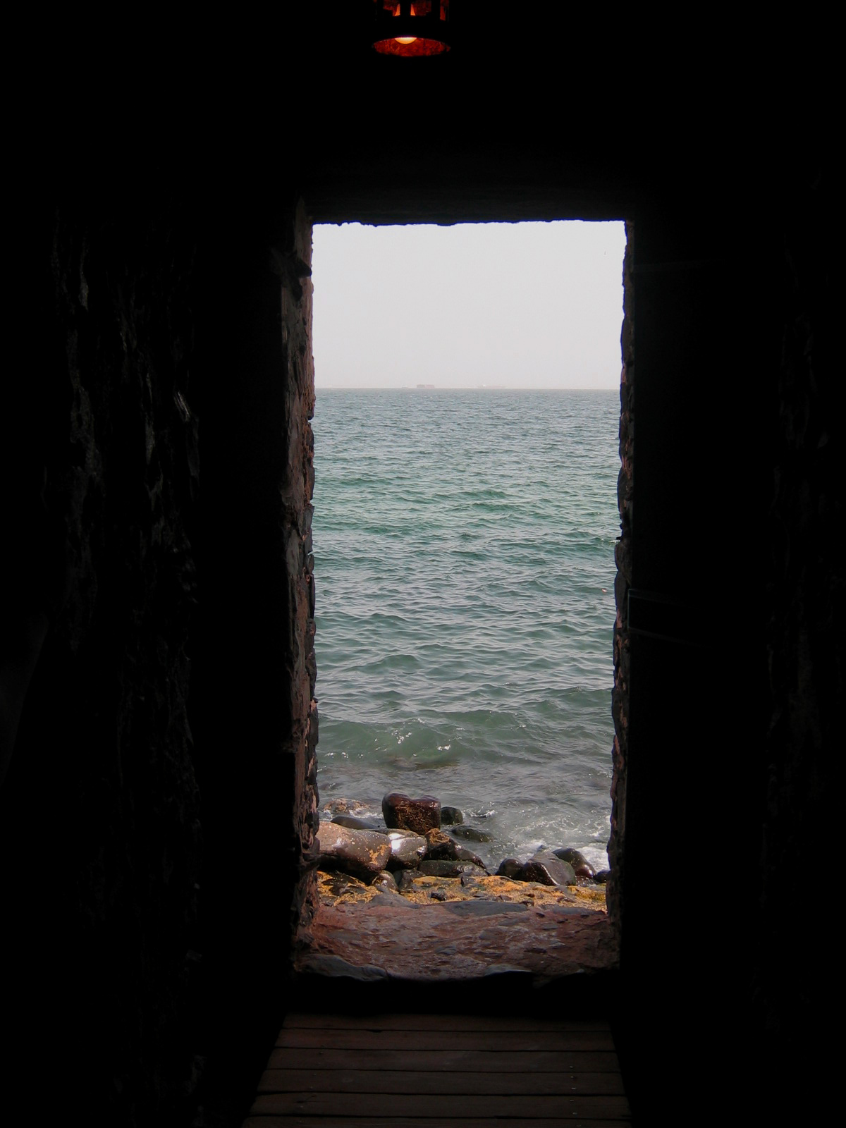 Portal sorrow of the house of slaves, Gorée, Senegal.